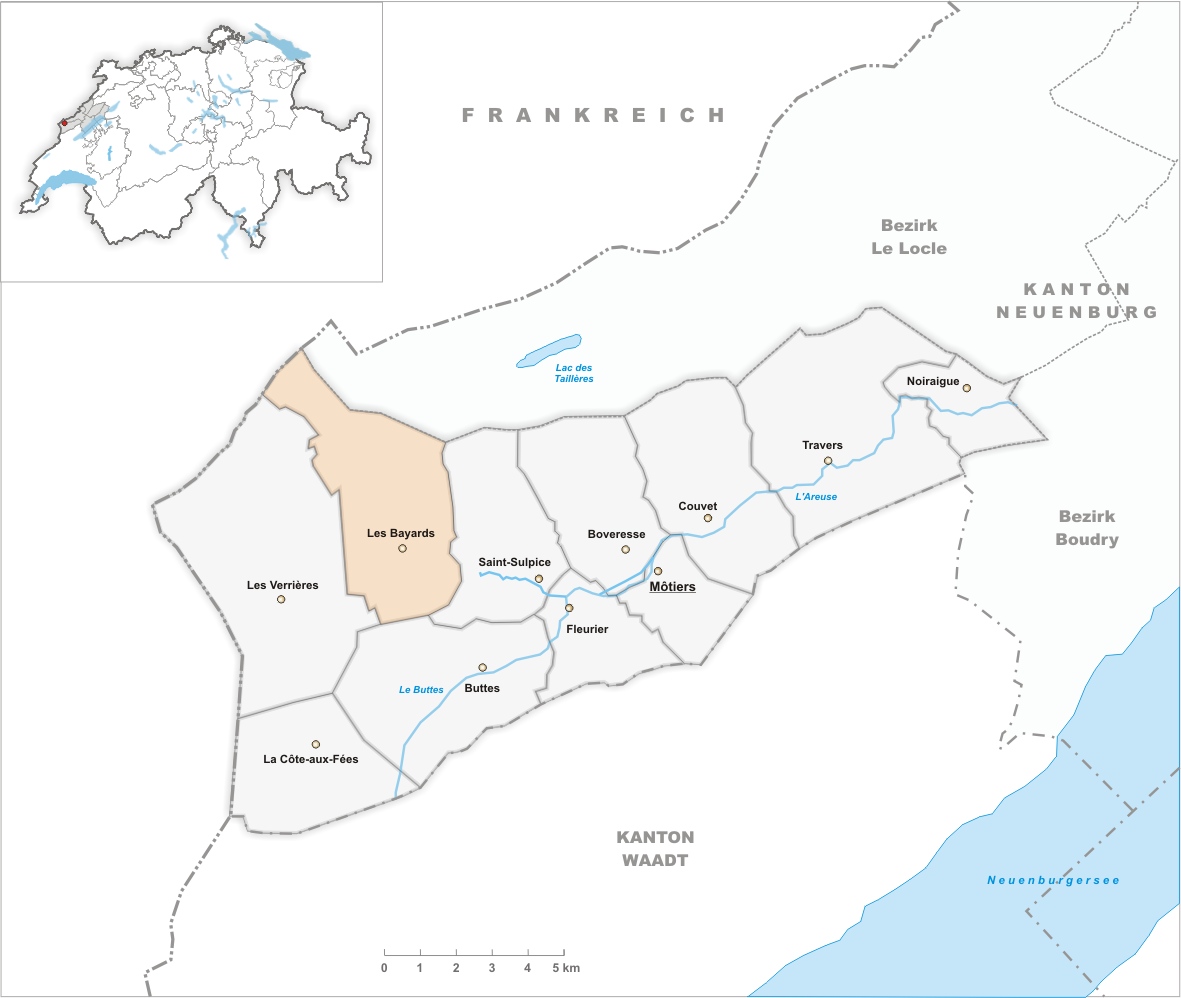 Municipality Les Bayards